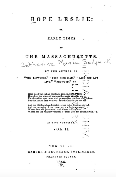 Hope Leslie: or, Early times in the Massachusetts, Volume 2, By Catharine Maria Sedgwick